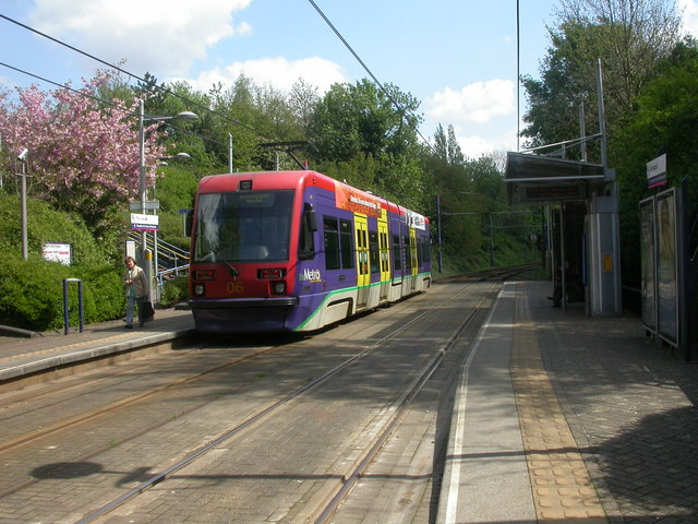 Bilston, The Crescent Metro Unit 06 setting off for Birmingham at The Crescent Station. For more pictures of the station